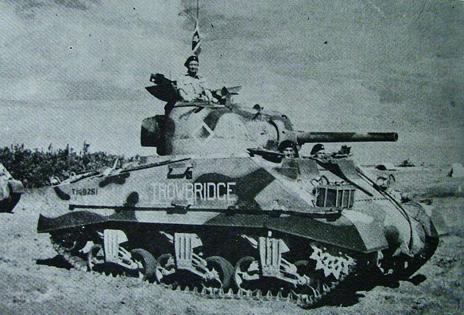 Lt-Colonel Alistair Gibb, commanding the Royal Wiltshire Yeomanry, in his Sherman command tank in Syria, 1943. The diamond on the turret indicates HQ squadron. Trowbridge is a town in Wiltshire where the regiment was raised; tanks in the regiment bore the names of Wiltshire towns, villages and pubs to aid identification and boost morale.